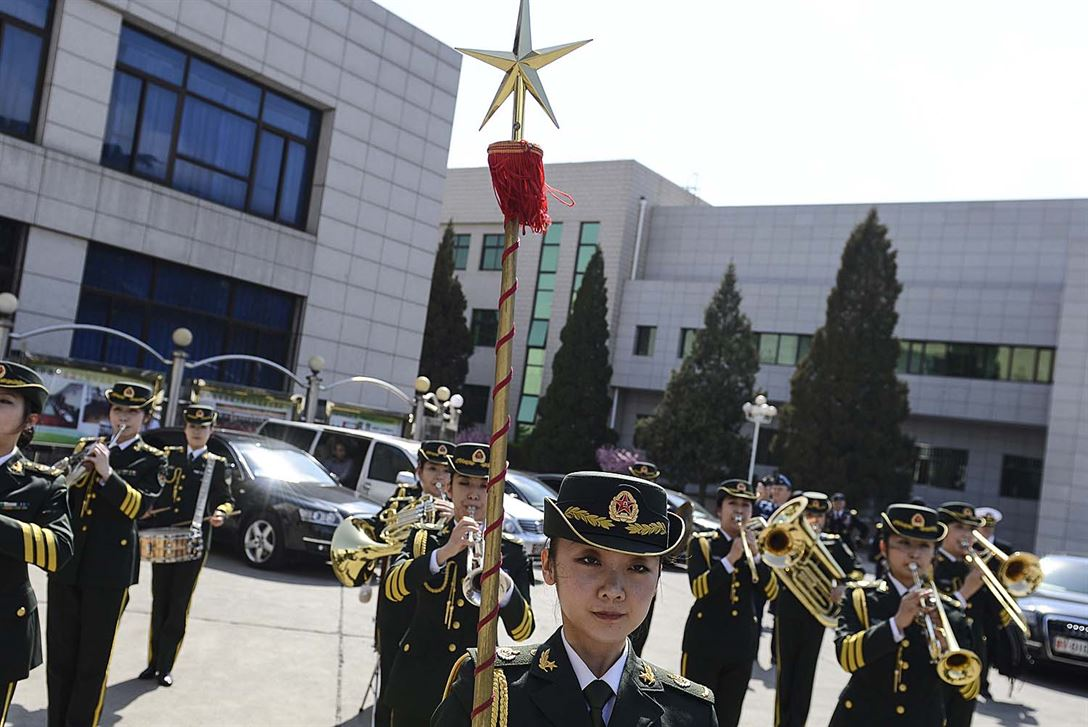 A Chinese band leader performs during the arrival of U.S. Army Gen. Martin E. Dempsey, chairman of the Joint Chiefs of Staff, at the Chinese National Defense University in Beijing, April 24, 2013.